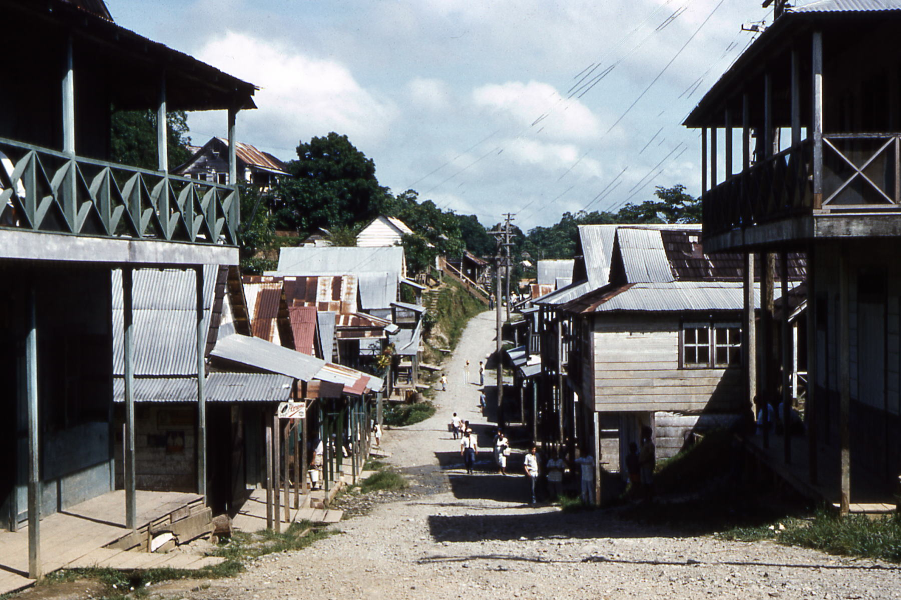 Street scene in Siuna